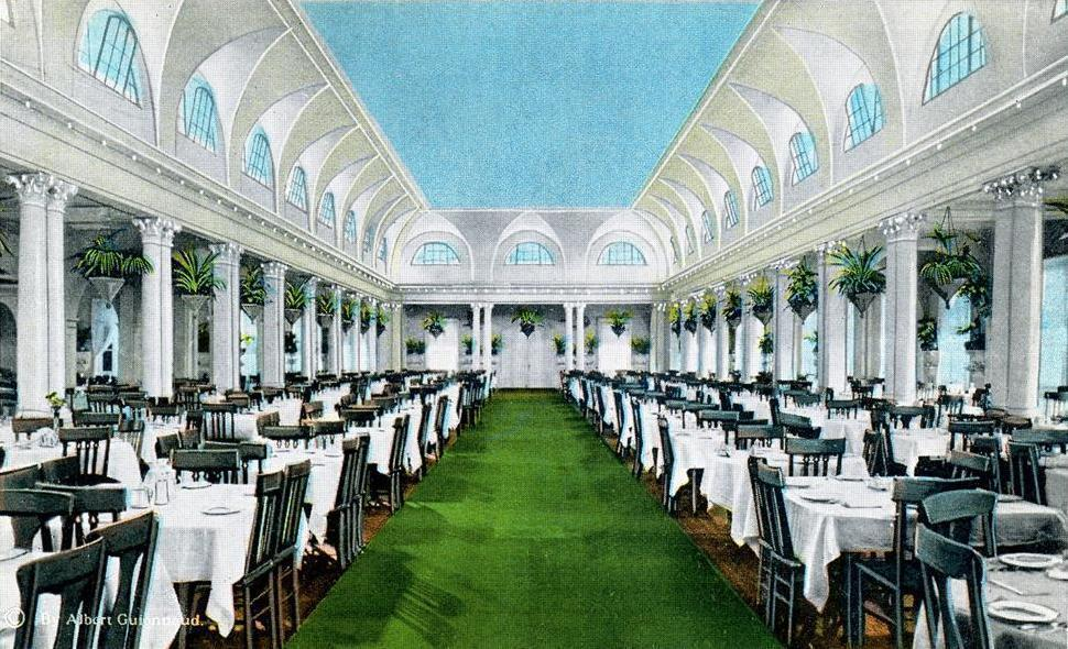 Dining Room at The Royal Poinciana Hotel, Palm Beach, Florida